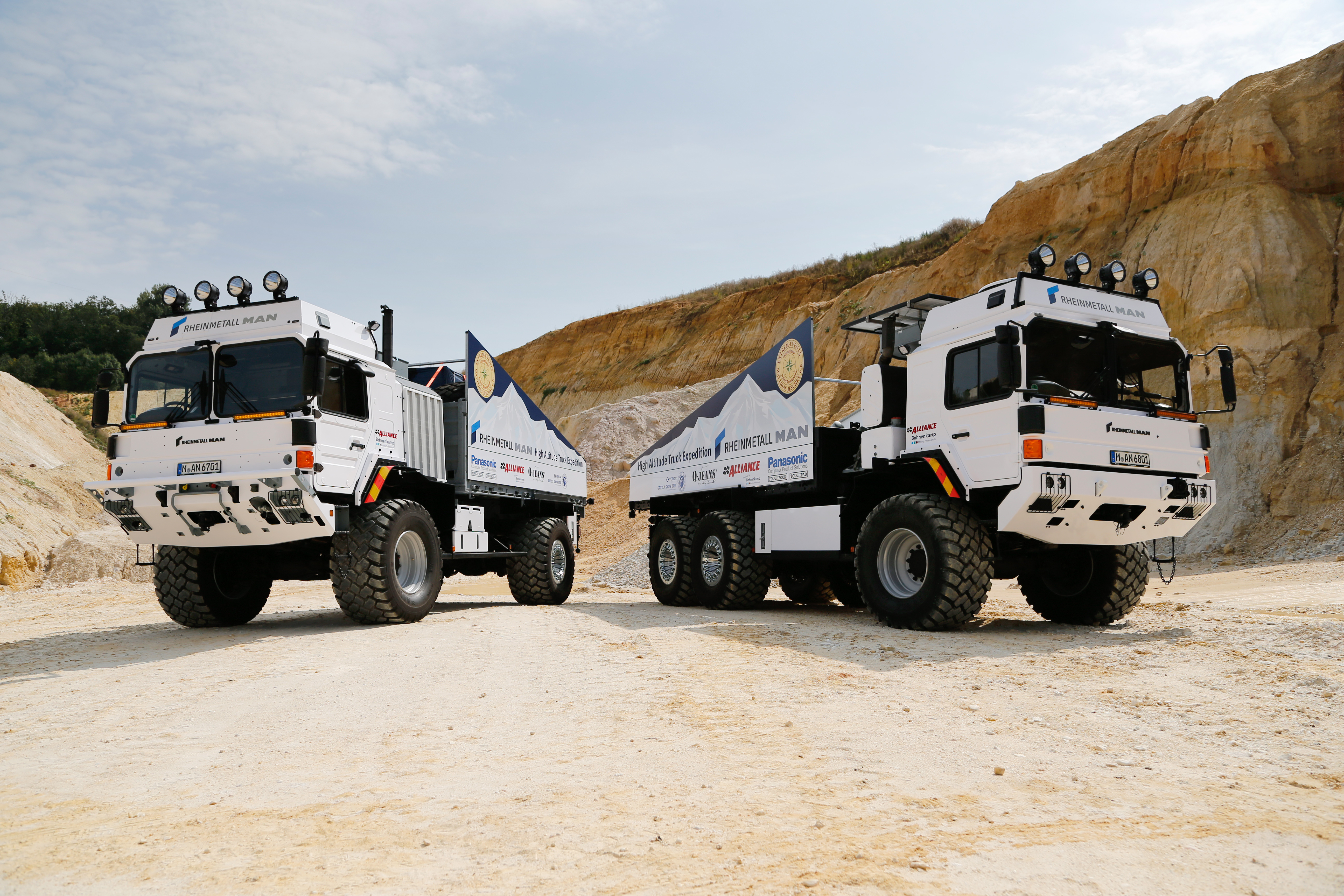 Rheinmetall MAN HX truck Ojos del Salado challenge.